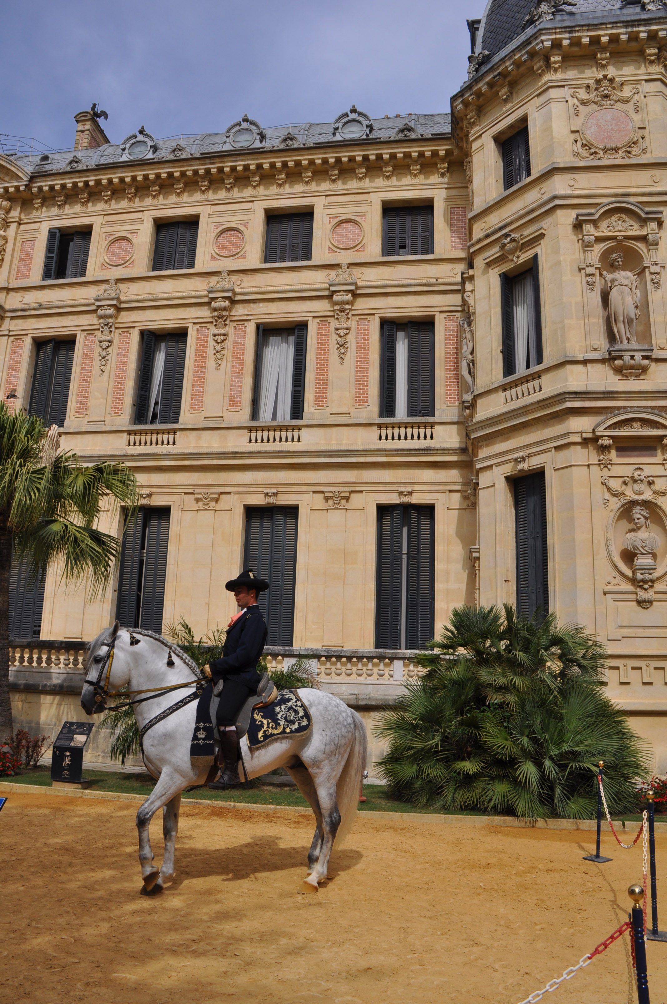 Royal Andalusian School of Equestrian Art